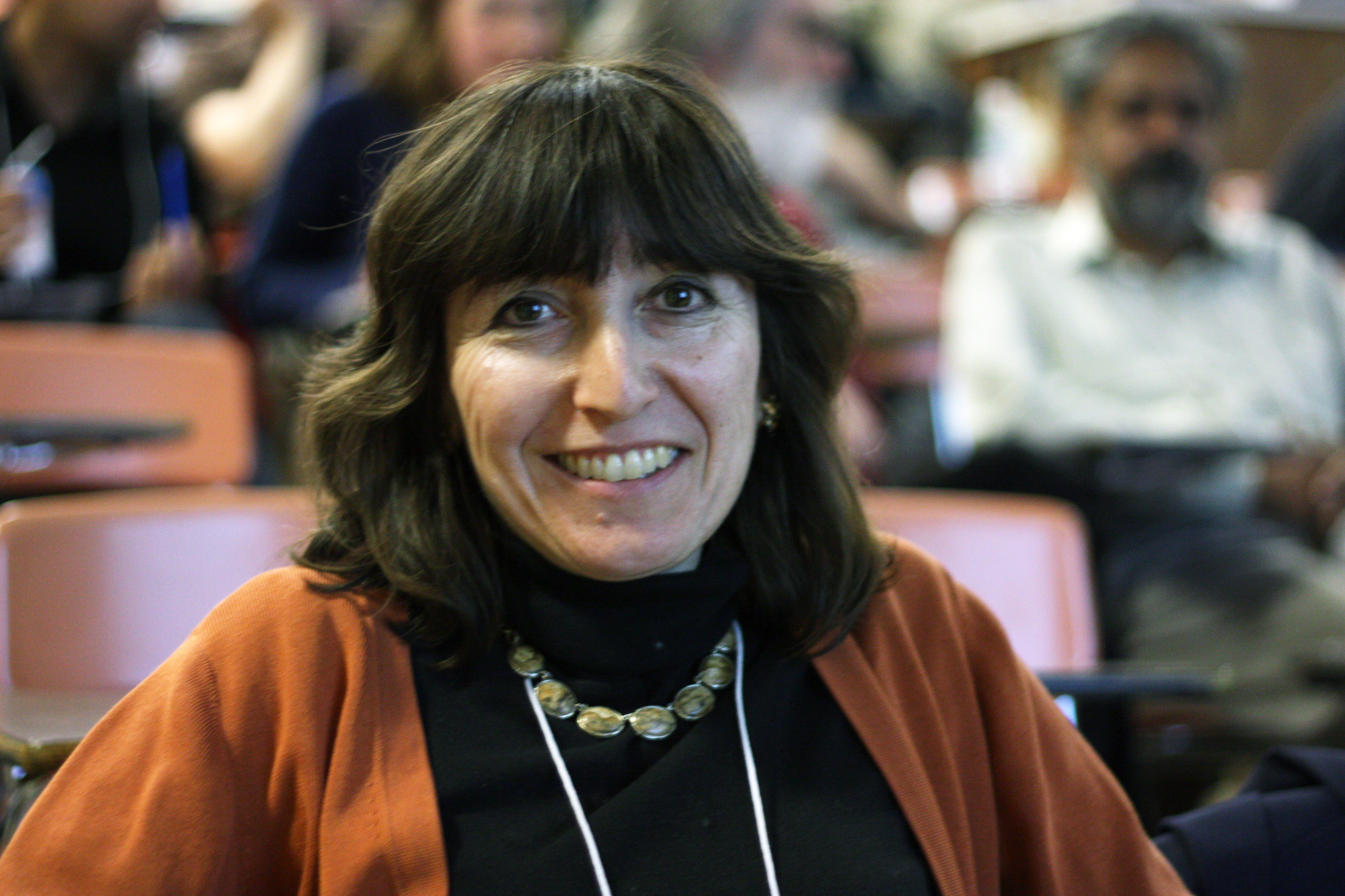 Wendy Freedman